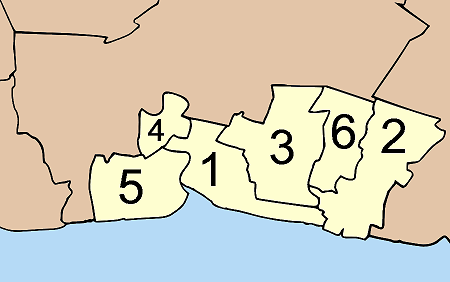 Map of Samut Prakan province, Thailand, with the Amphoe numbered. Mueang Samut Prakan (อำเภอเมืองสมุทรปราการ) Bang Bo (อำเภอบางบ่อ) Bang Phli (อำเภอบางพลี) Phra Pradaeng (อำเภอพระประแดง) Phra Samut Chedi (อำเภอพระสมุทรเจดีย์) Bang Sao Thong (sub-district) (กิ่งอำเภอบางเสาธง)